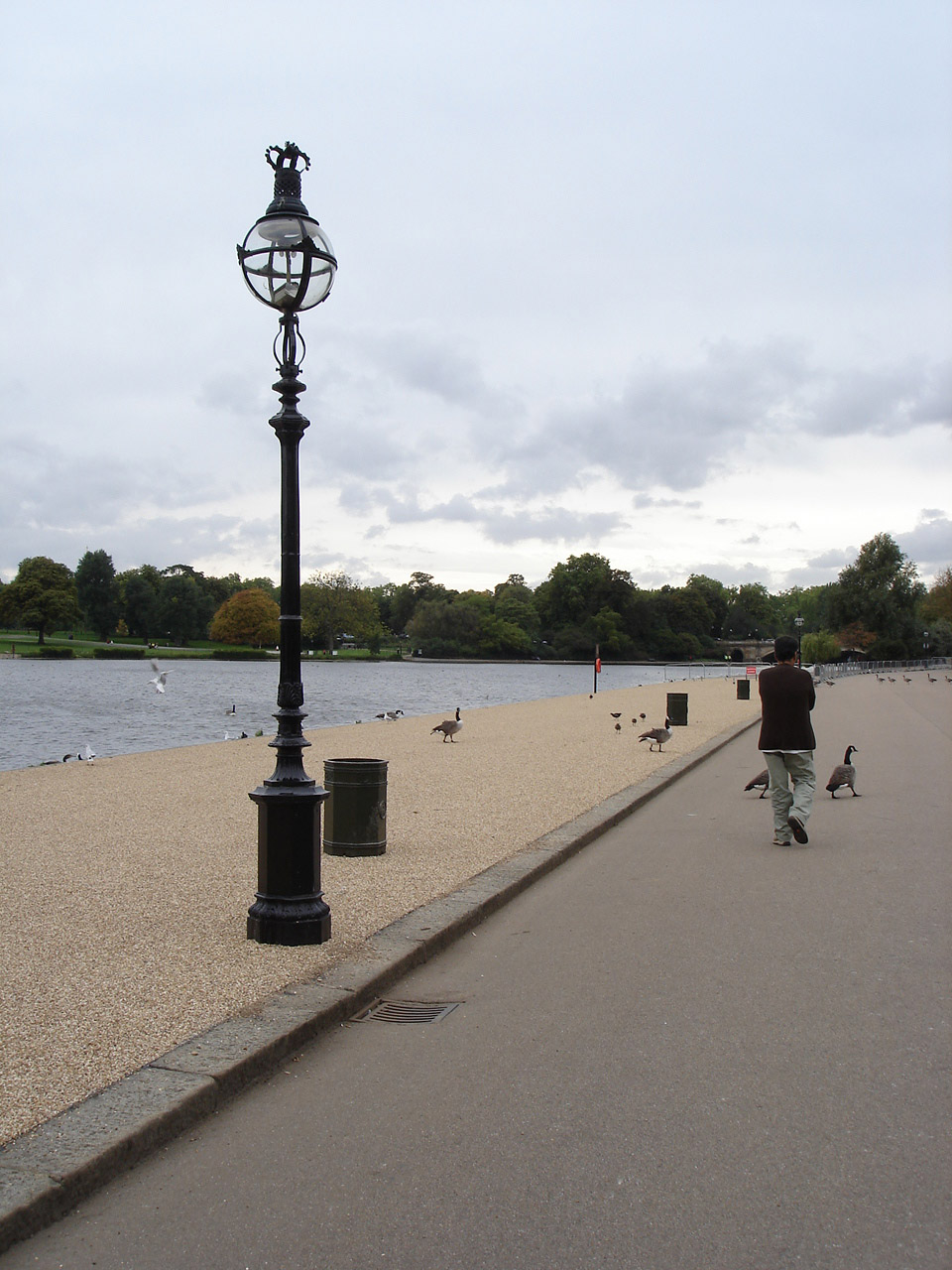 Hyde Park, 2005